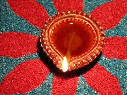 Burning oil lamp on a colourful rangoli designed on Diwali.